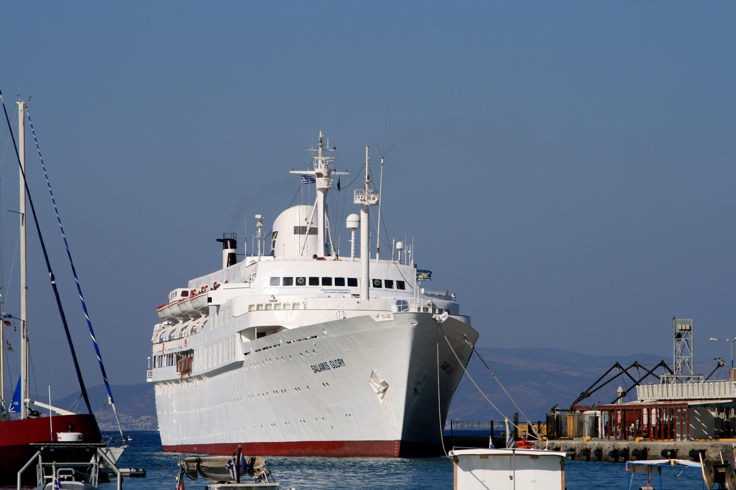 Ship Salamis Glory in port in town Kos on Kos island, Greece